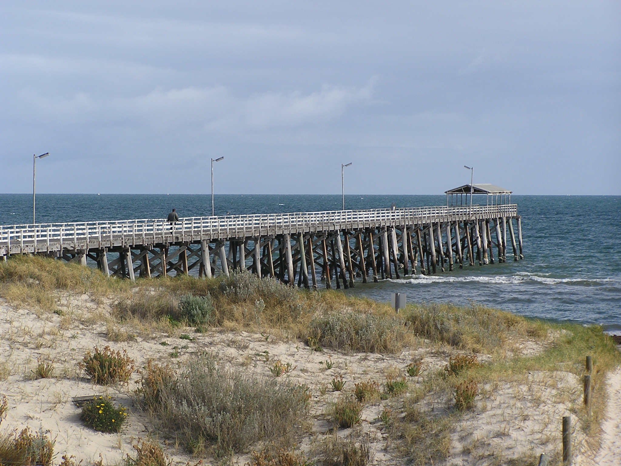 Jetty at Grange, a suburb of Adelaide, South Australia, Australia in July 2004. The jetty was built in 1882.